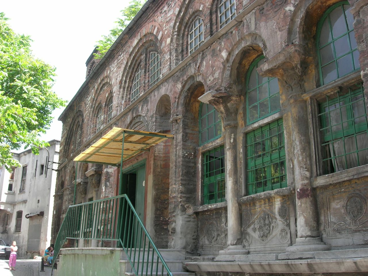 The Facade of the Exonarthex of the Vefa Church Mosque in Istanbul